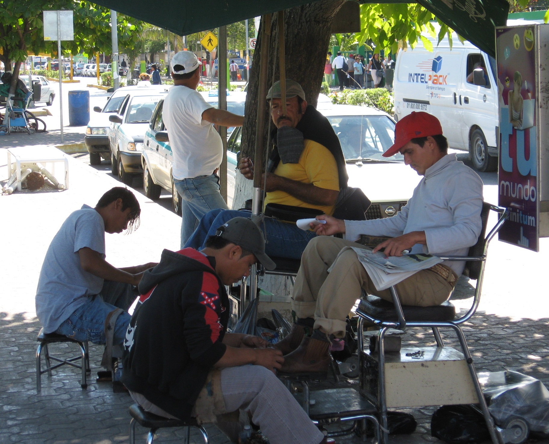 Shoeshiners at work in Playa del Carmen, Mexico